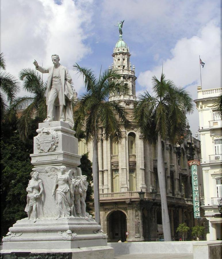 Statue of José Martí in Central Park, Havana, Cuba. Hotel Ingleterra on right.